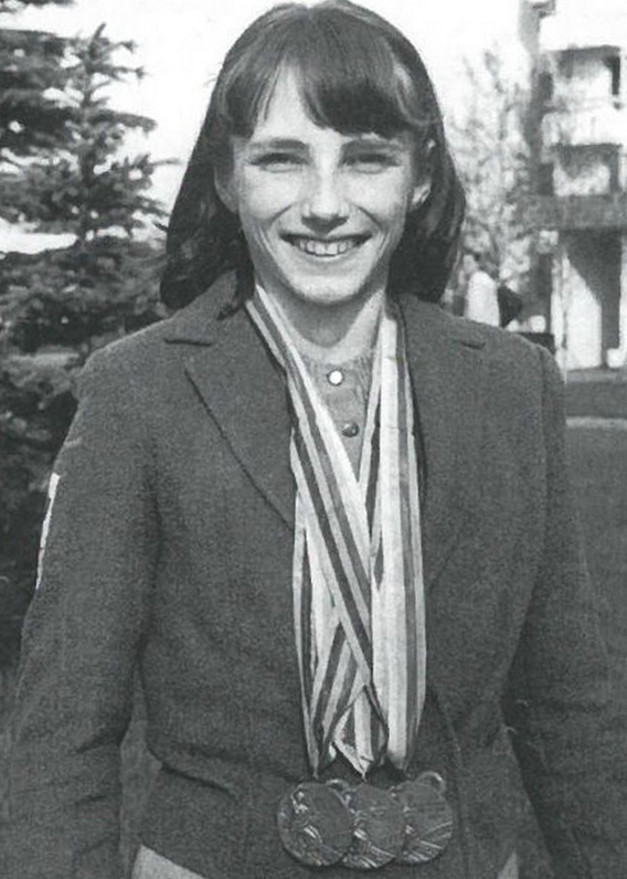 Melita Ruhn at the 1980 Olympics